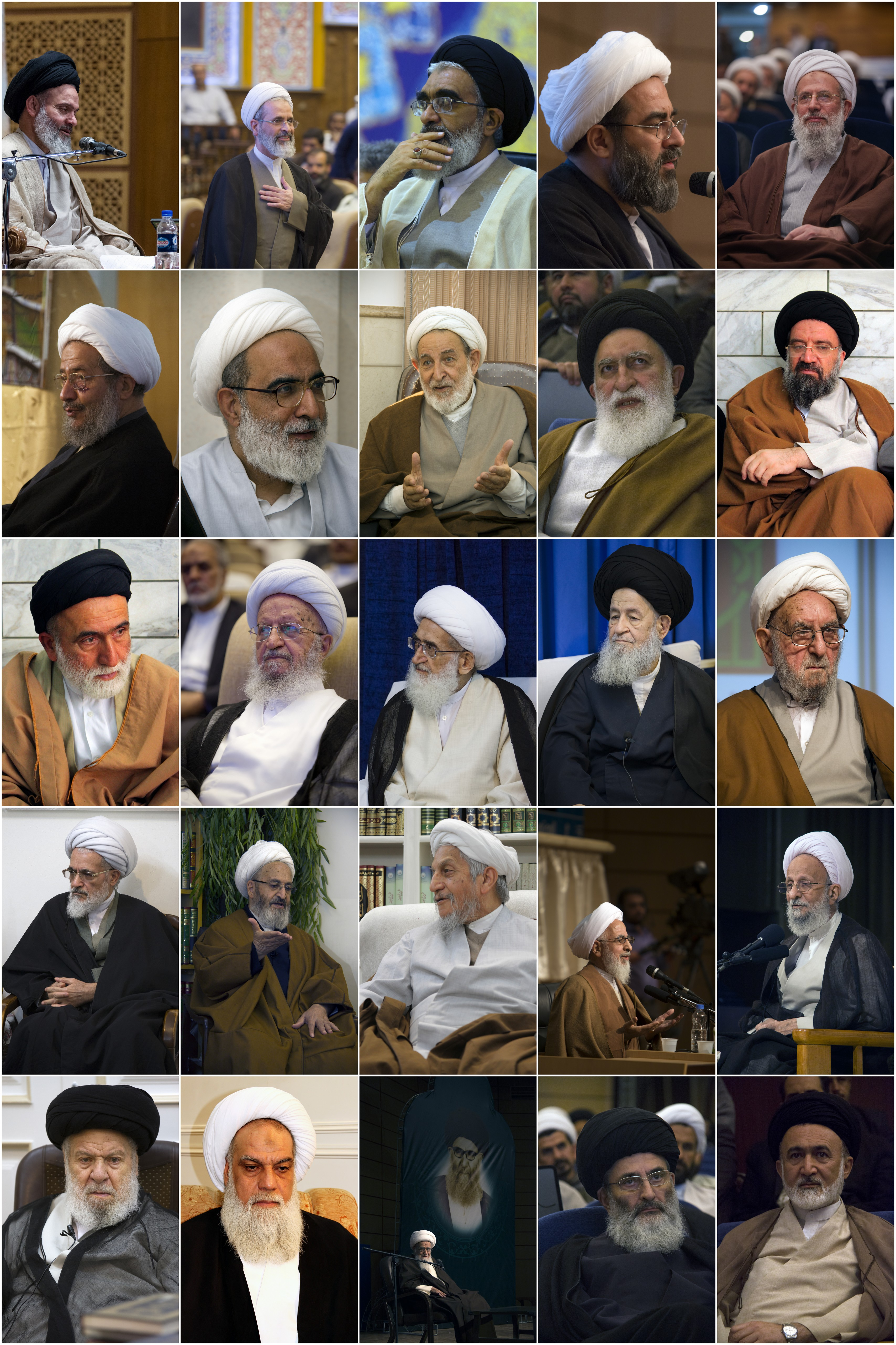 Grand Ayatollahs Qom. Photo Collage, Photographer: Mostafa Meraji